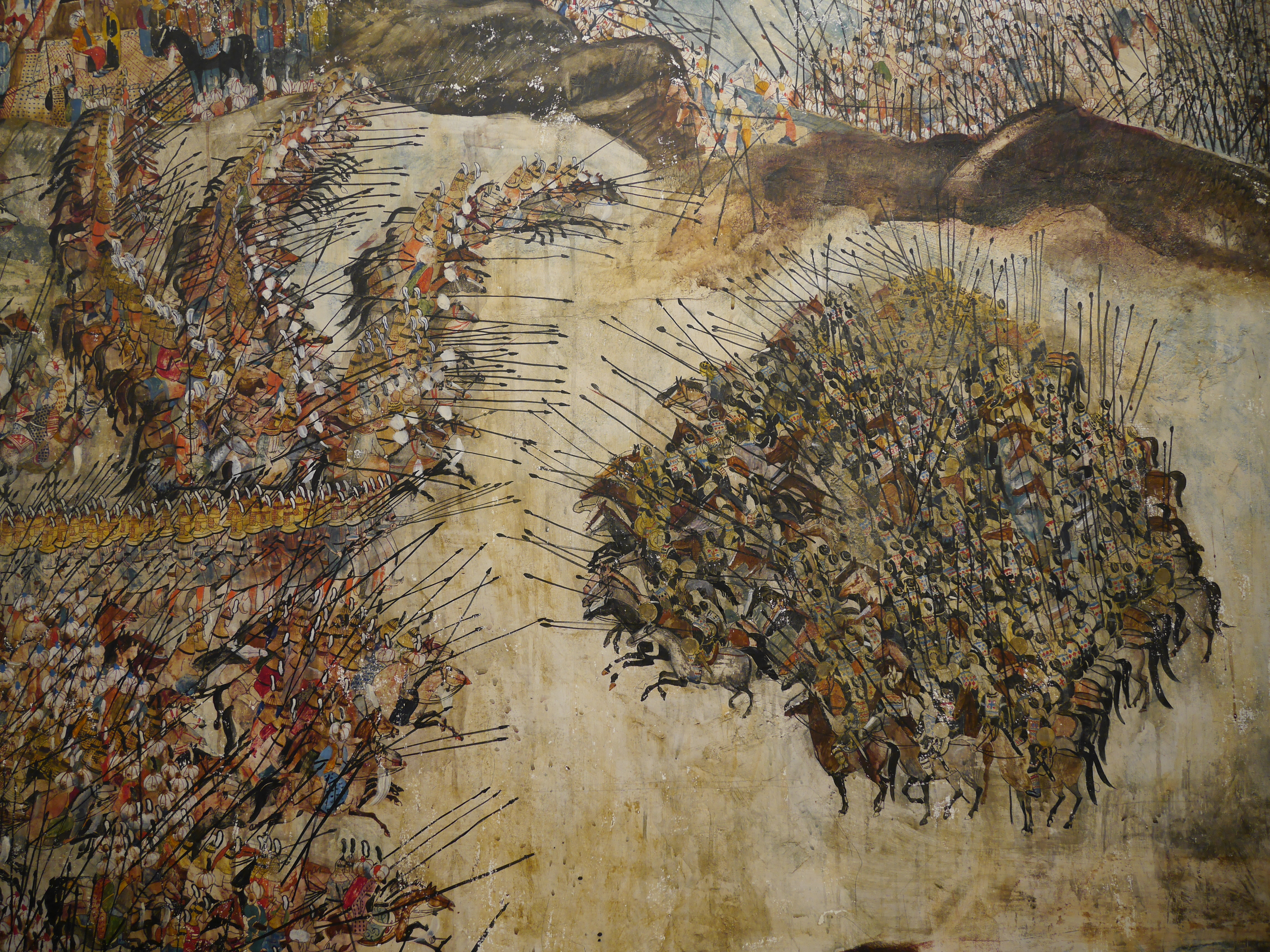 Merab Abramishvili's paintings.